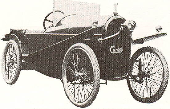 1921 Carden cyclecar